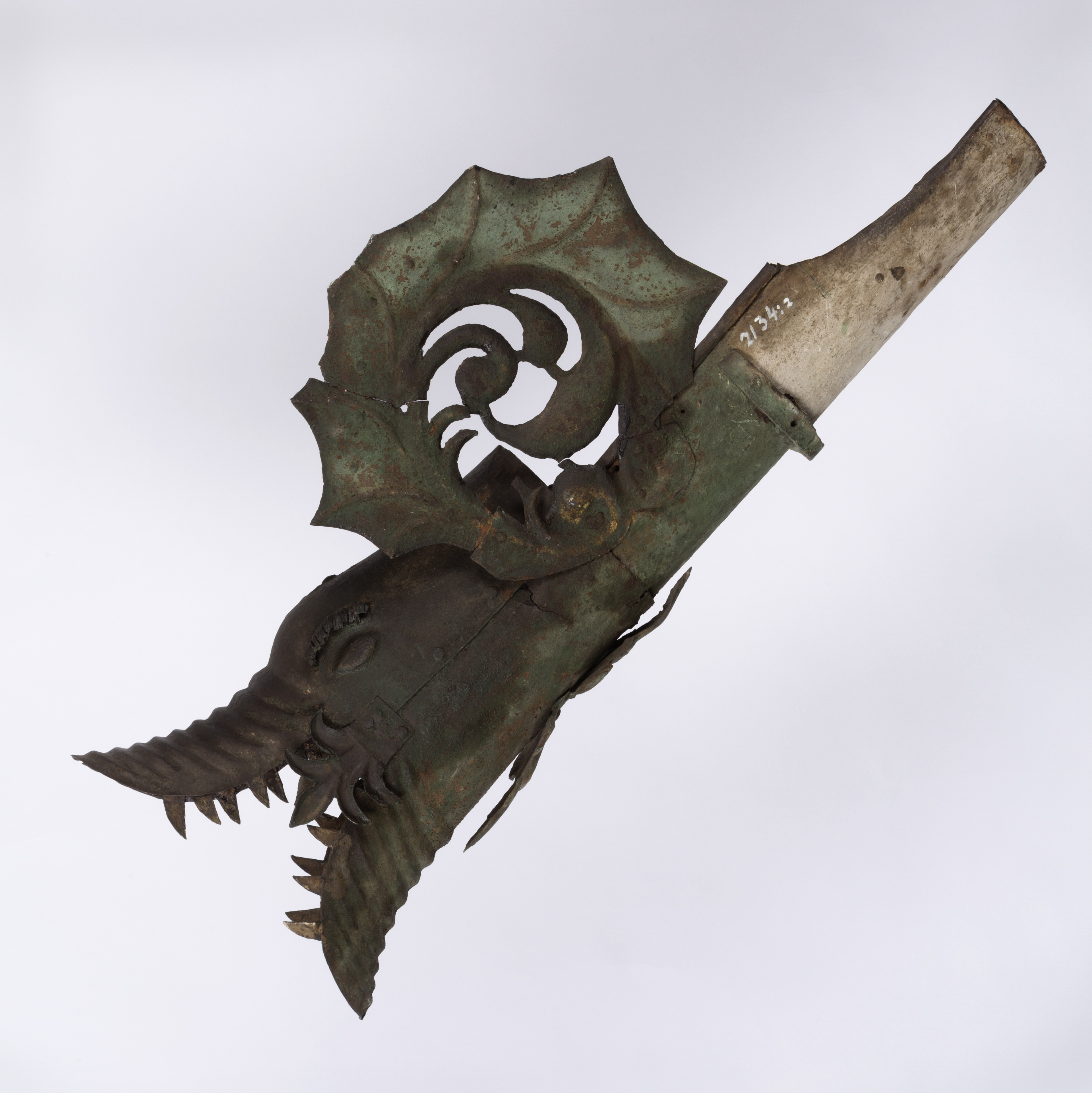 FÖREMÅLVattenkastare.INVENTARIENUMMER: 2134 2Stadsmuseet i Stockholm